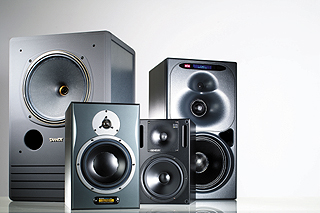 different Studio monitors from Tannoy, Dynaudio, Genelec and K+H